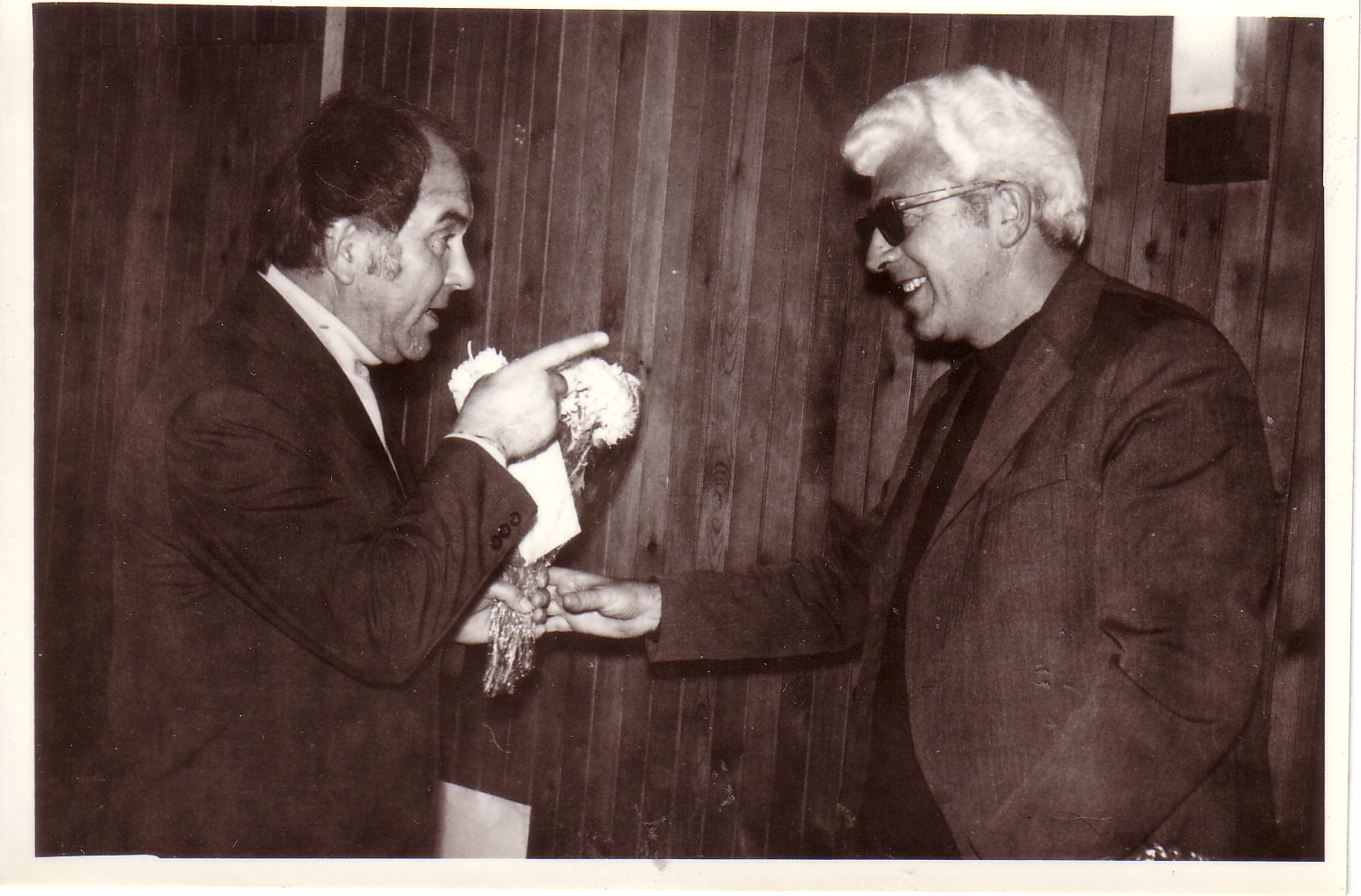 50th anniversary celebration of Varban Stamatov, marine novelist, at gathering of leading figures from the Bulgarian community